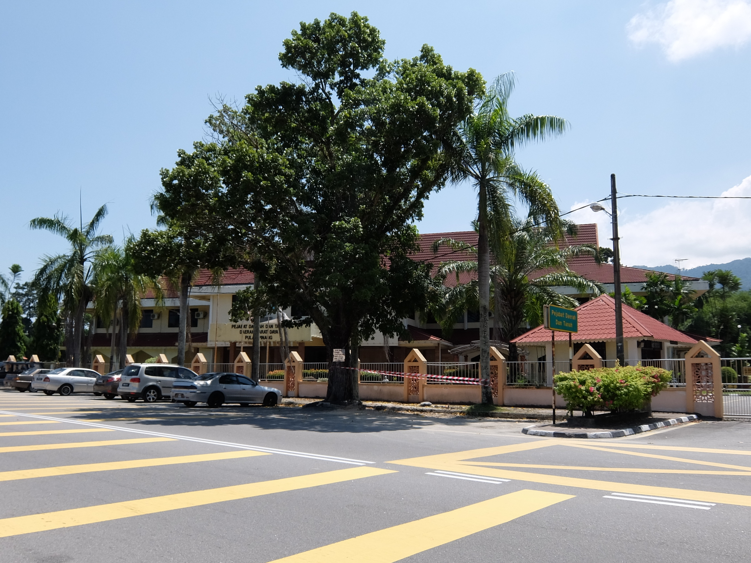 Southwest Penang Island District and Land Office, Balik Pulau, Southwest Island, Penang, Malaysia